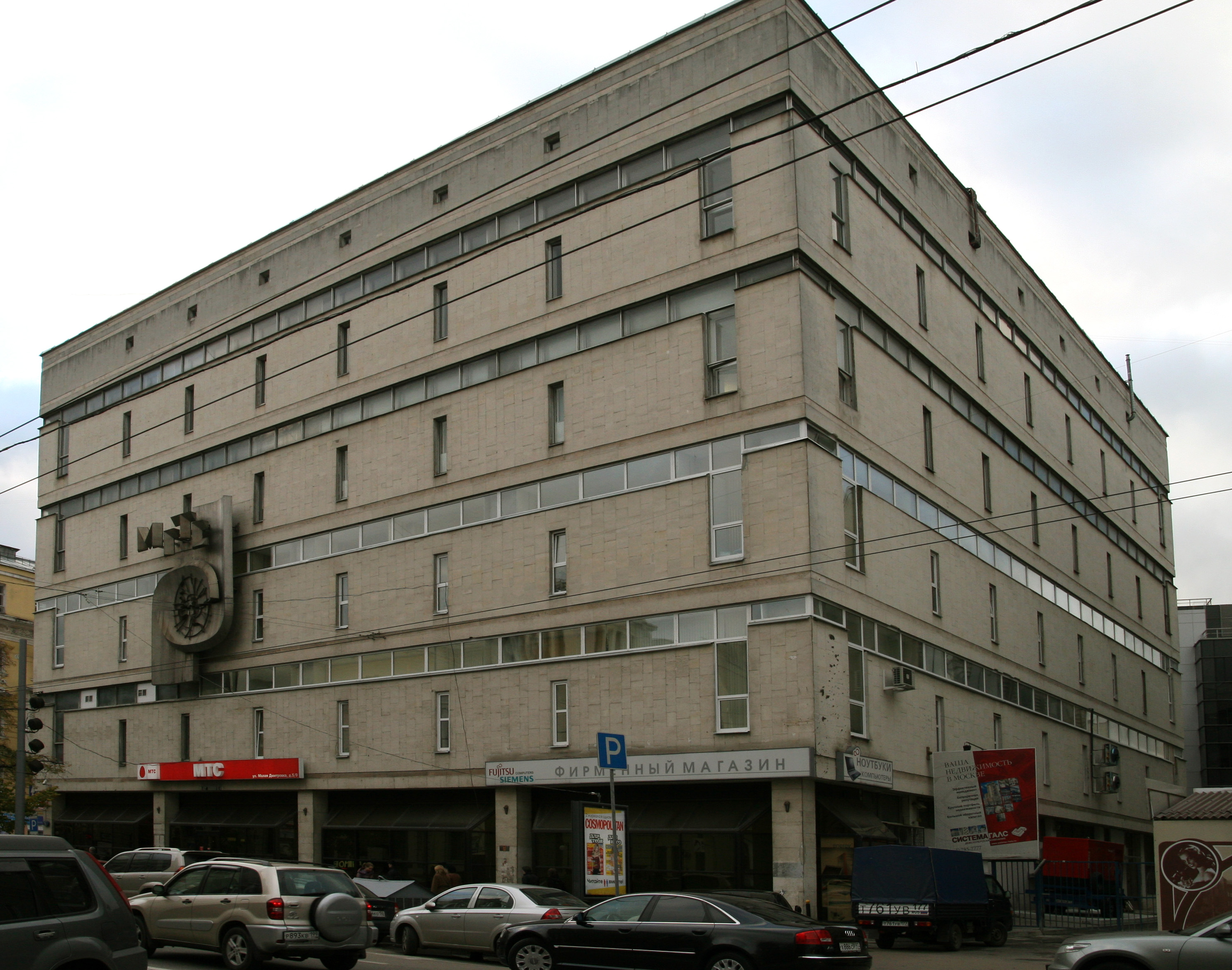 Moscow, Malaya Dmitrovka Street 5 MGTS